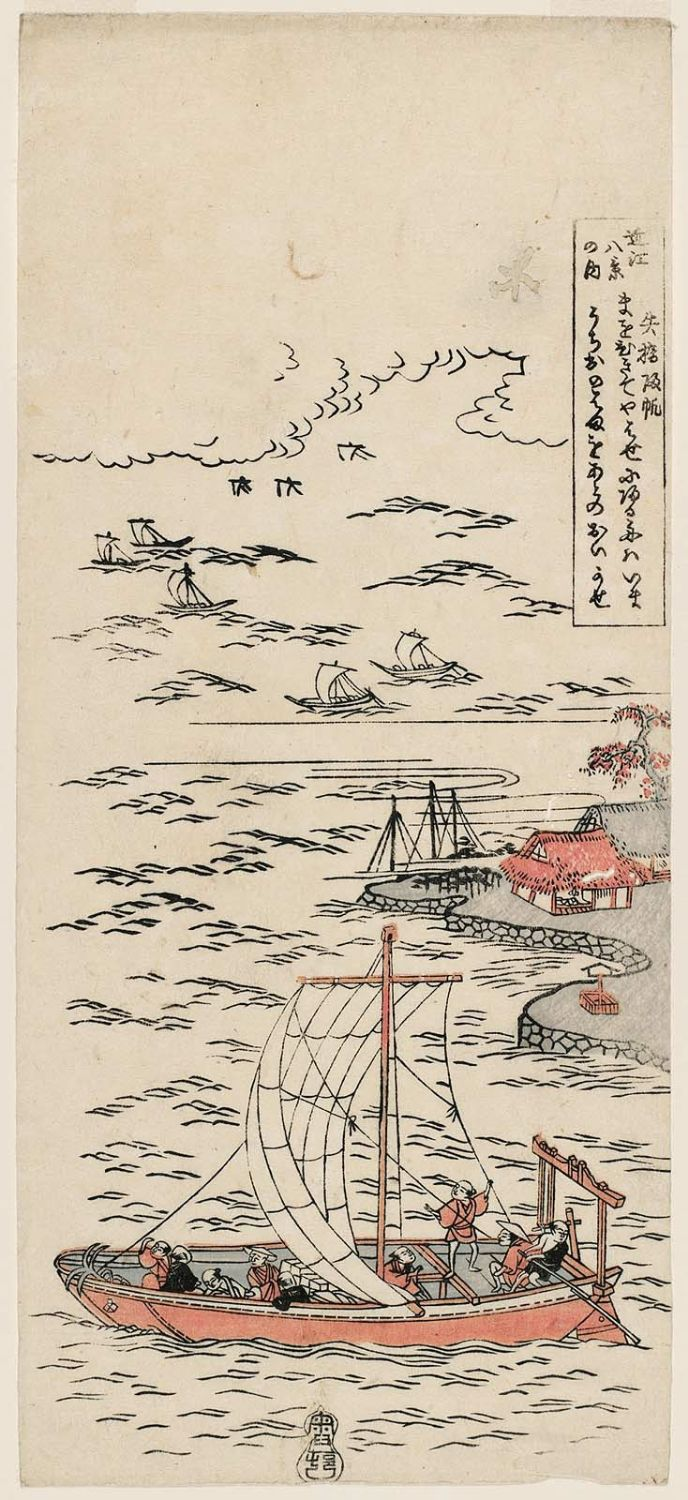 print from the series Ōmi Hakkei no Uchi